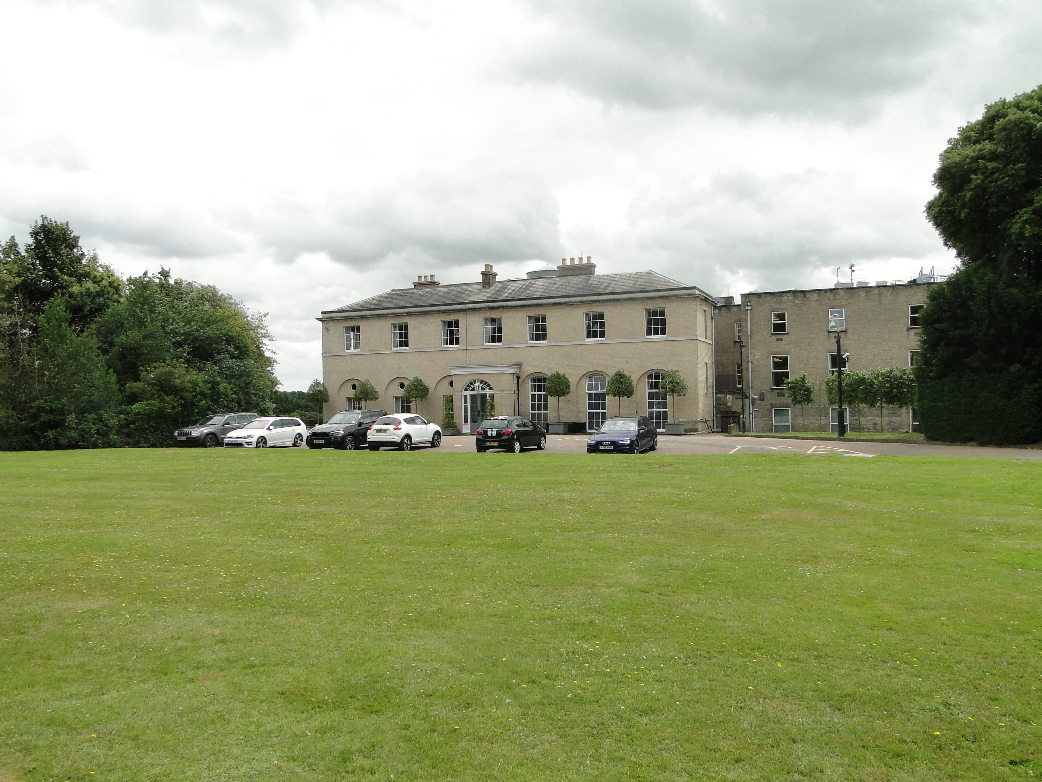 Requisitioned as a hospital during World War One